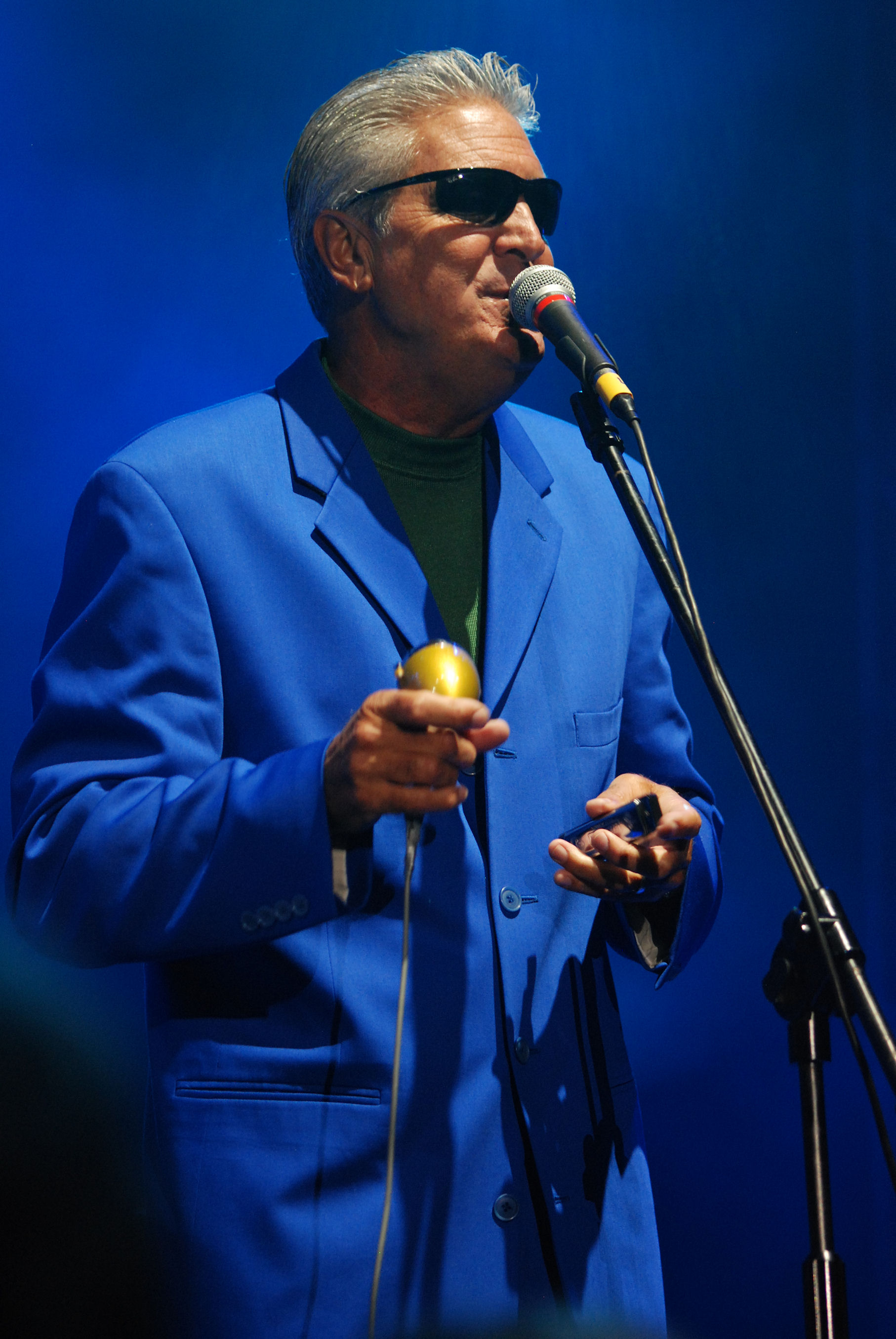 Taking of this photo was in cooperation with Rawa Blues (homepage) Rod Piazza podczas 29. Edycji Rawa Blues Festival Hala Spodek, Katowice Rawa Blues